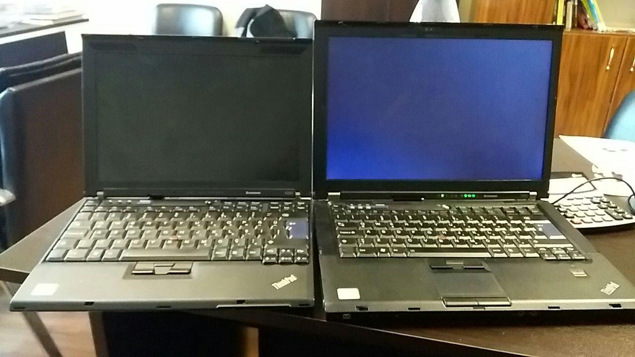 ThinkPad X200 and ThinkPad T400